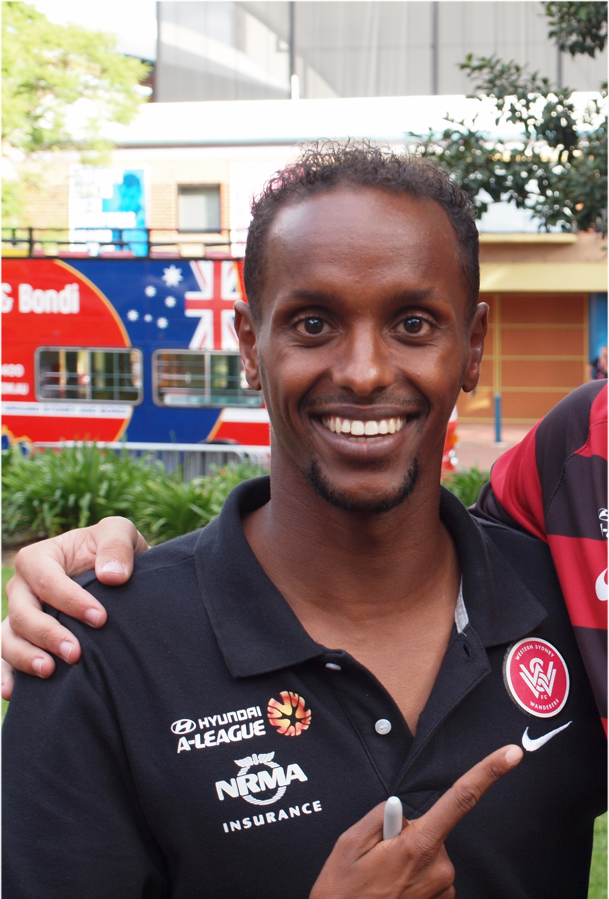 Youssouf Hersi at the Wanderers end of season parade through Parramatta.